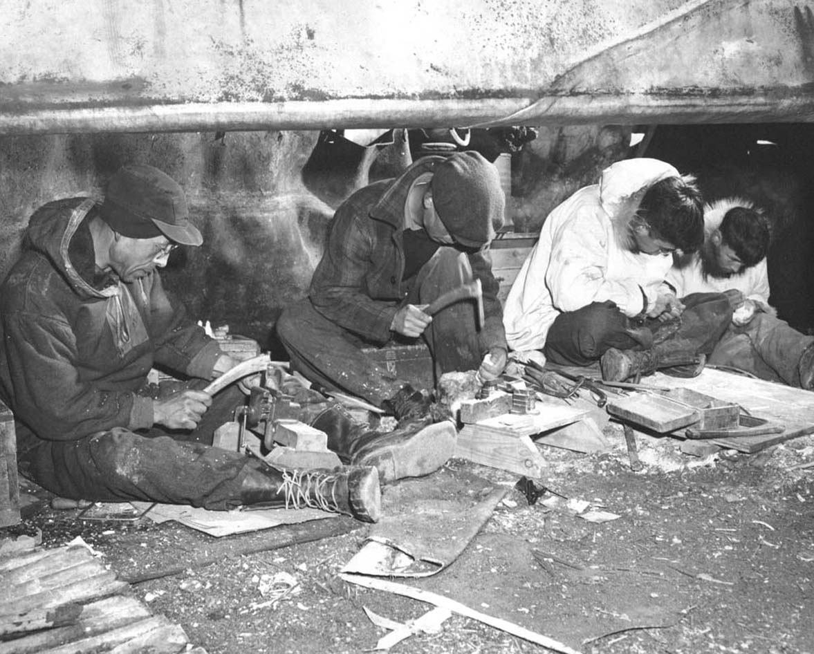 King Island Eskimos Carving Ivory Near Nome